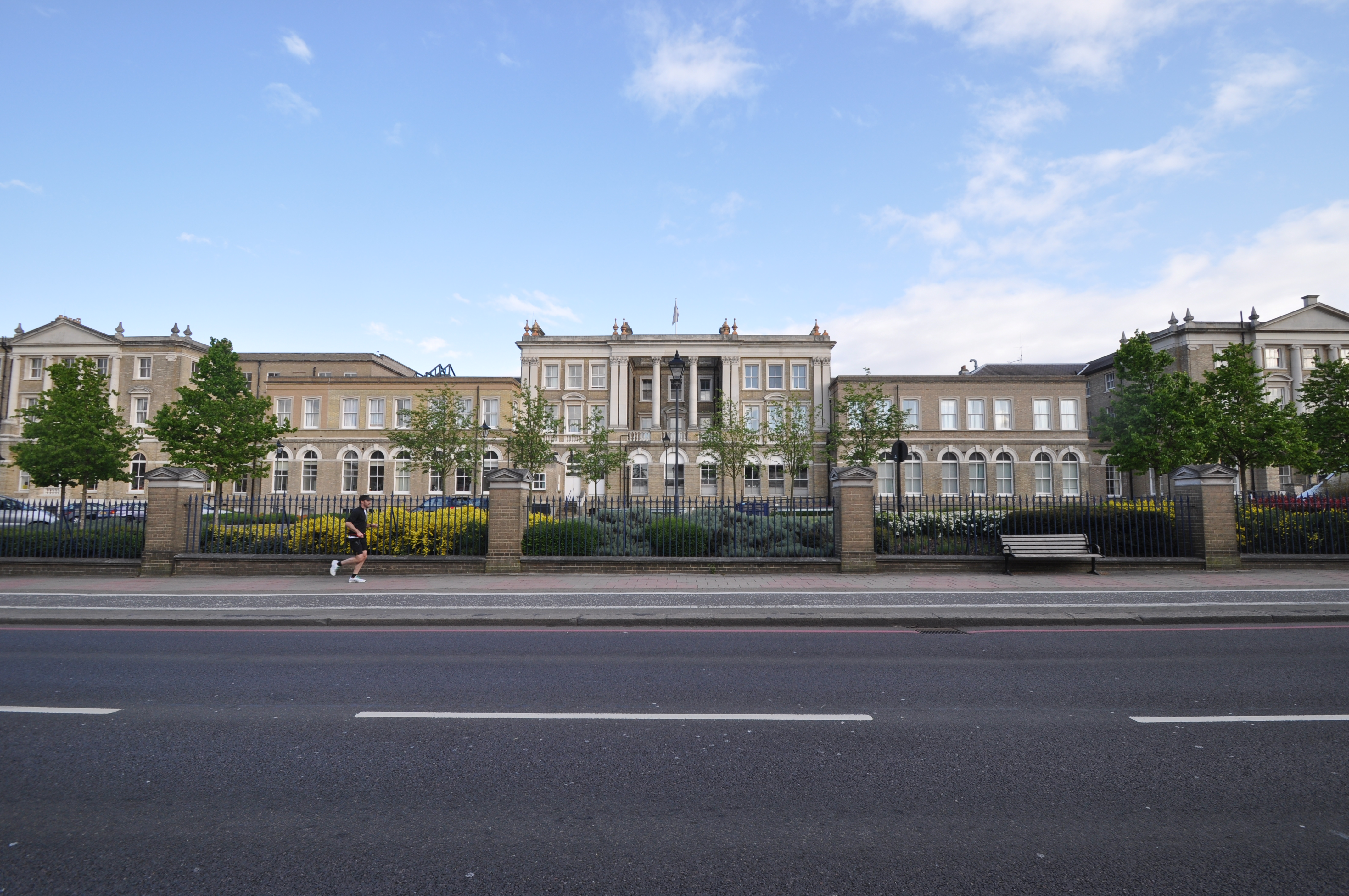 The Royal Hospital for Neuro-disability, Grade II listed under its former name ROYAL HOSPITAL AND HOME FOR INCURABLES, WEST HILL SW18